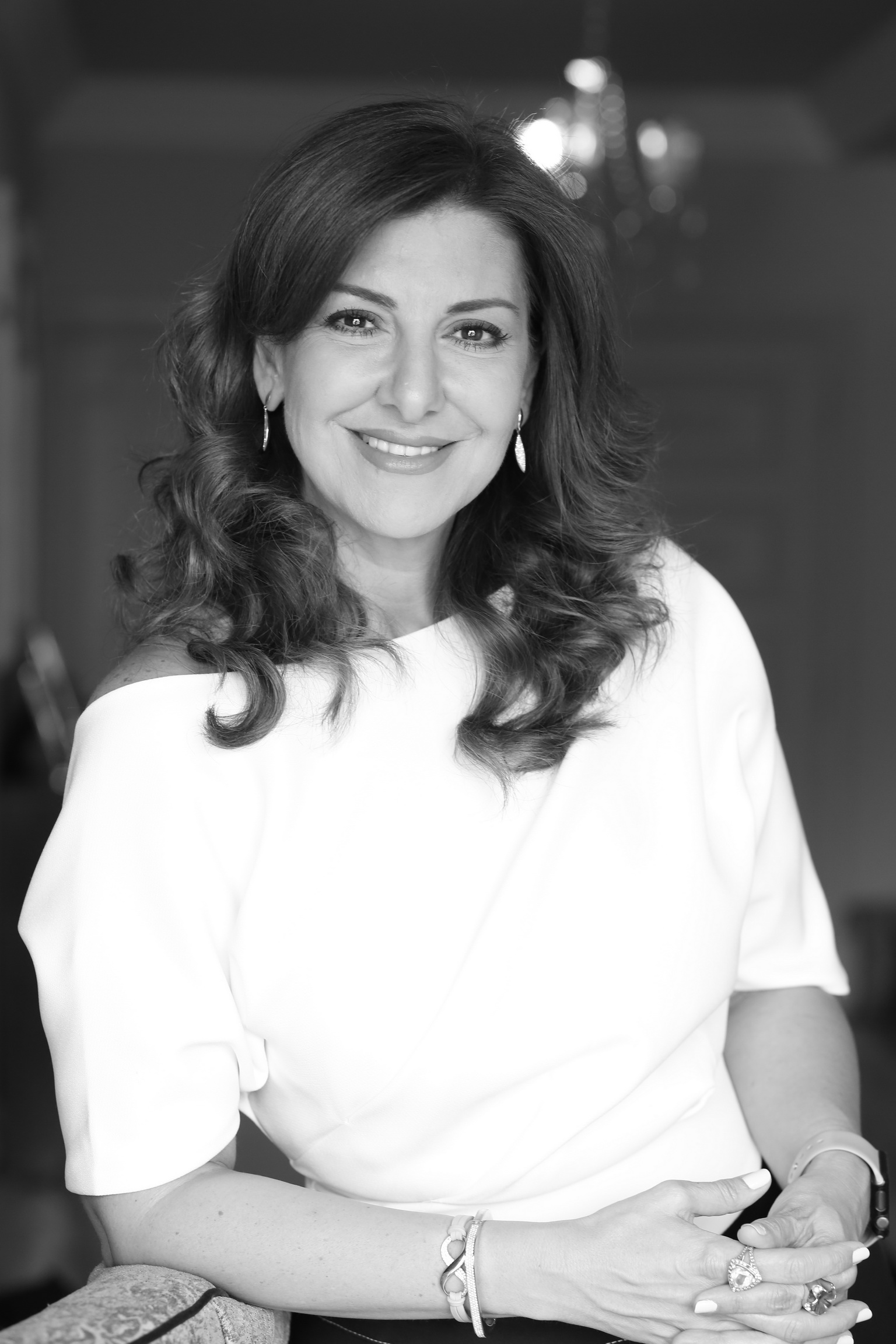 Profile